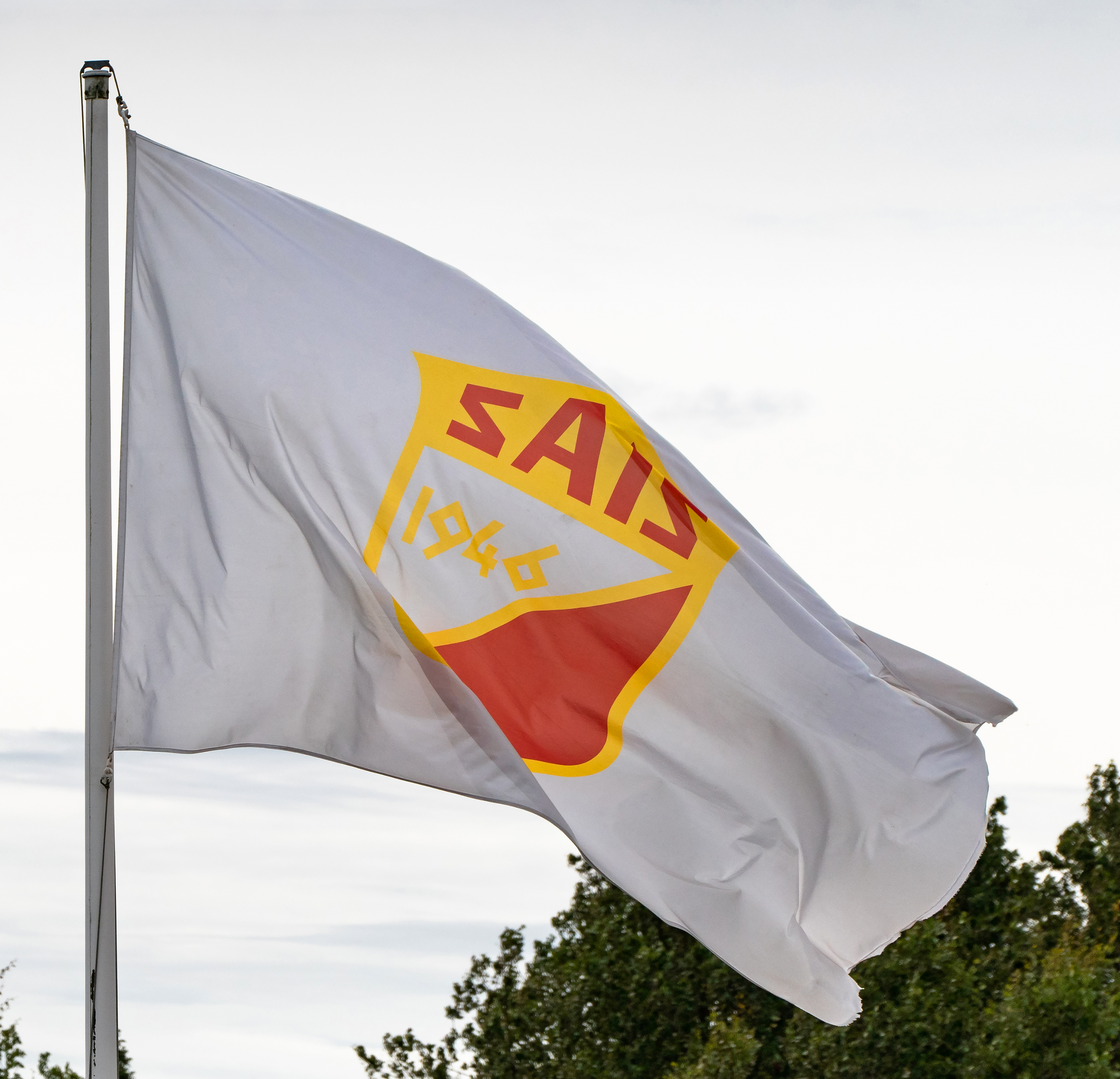 SAIS flag at Brastad arena, Brastad, Lysekil Municipality, Sweden.